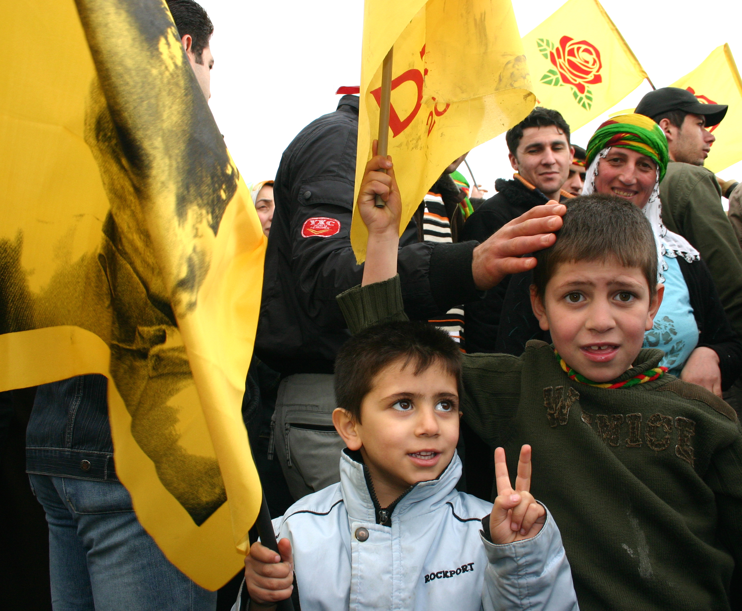 Newroz celebration, Istanbul 2006. Photo by Bertil Videt